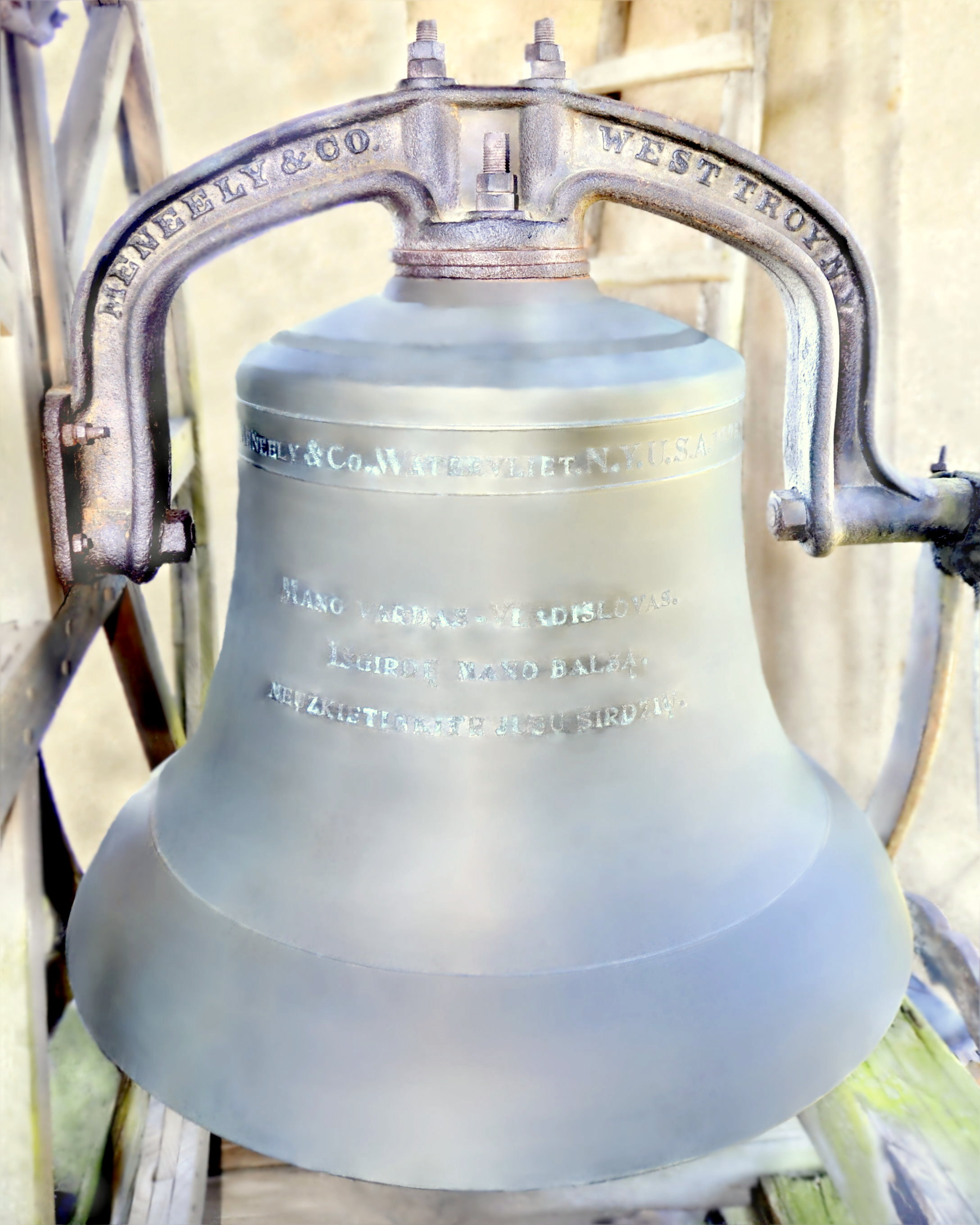 The bell of the Šilai church, Lithuania